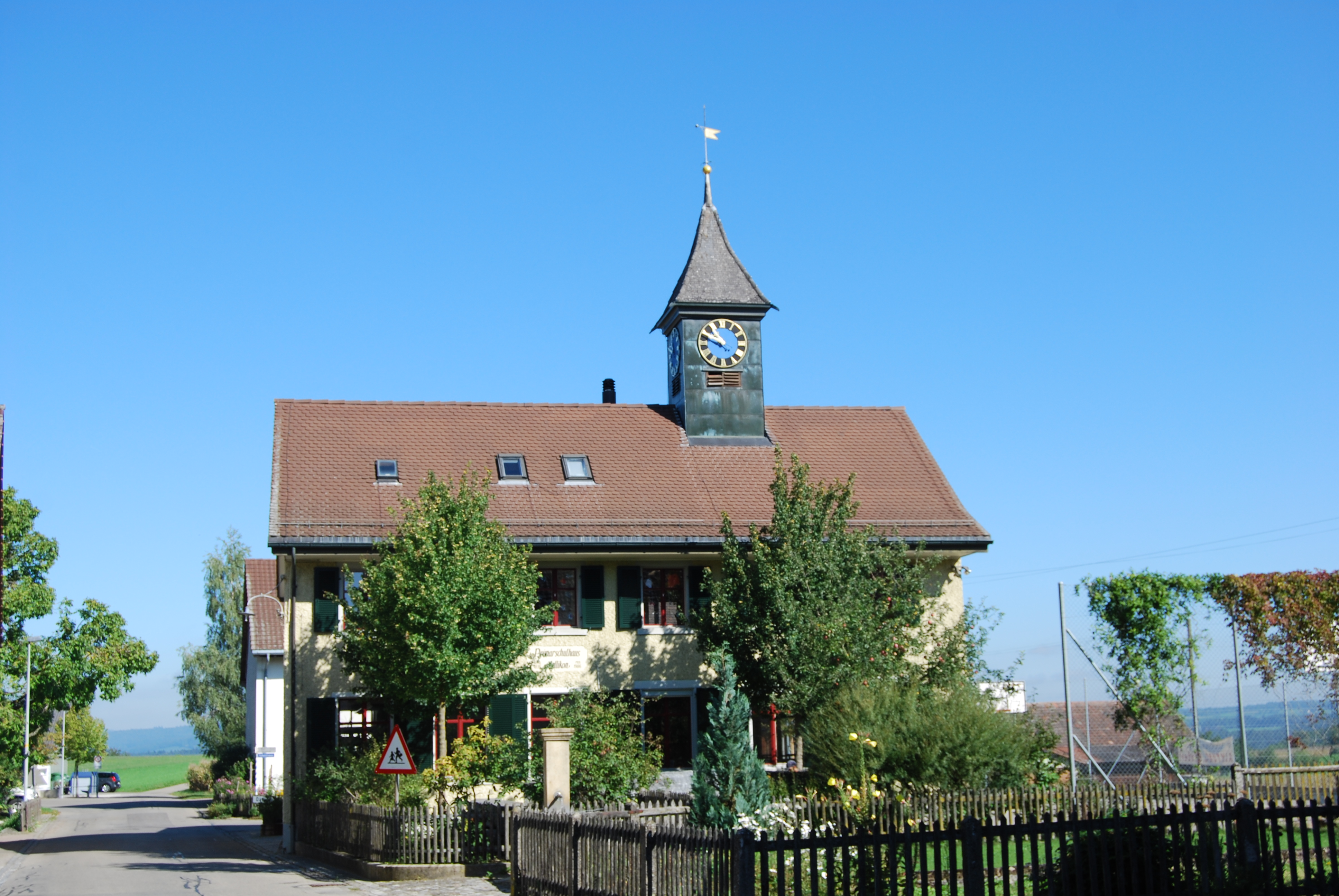 Adlikon near Andelfingen, canton of Zürich, Switzerland